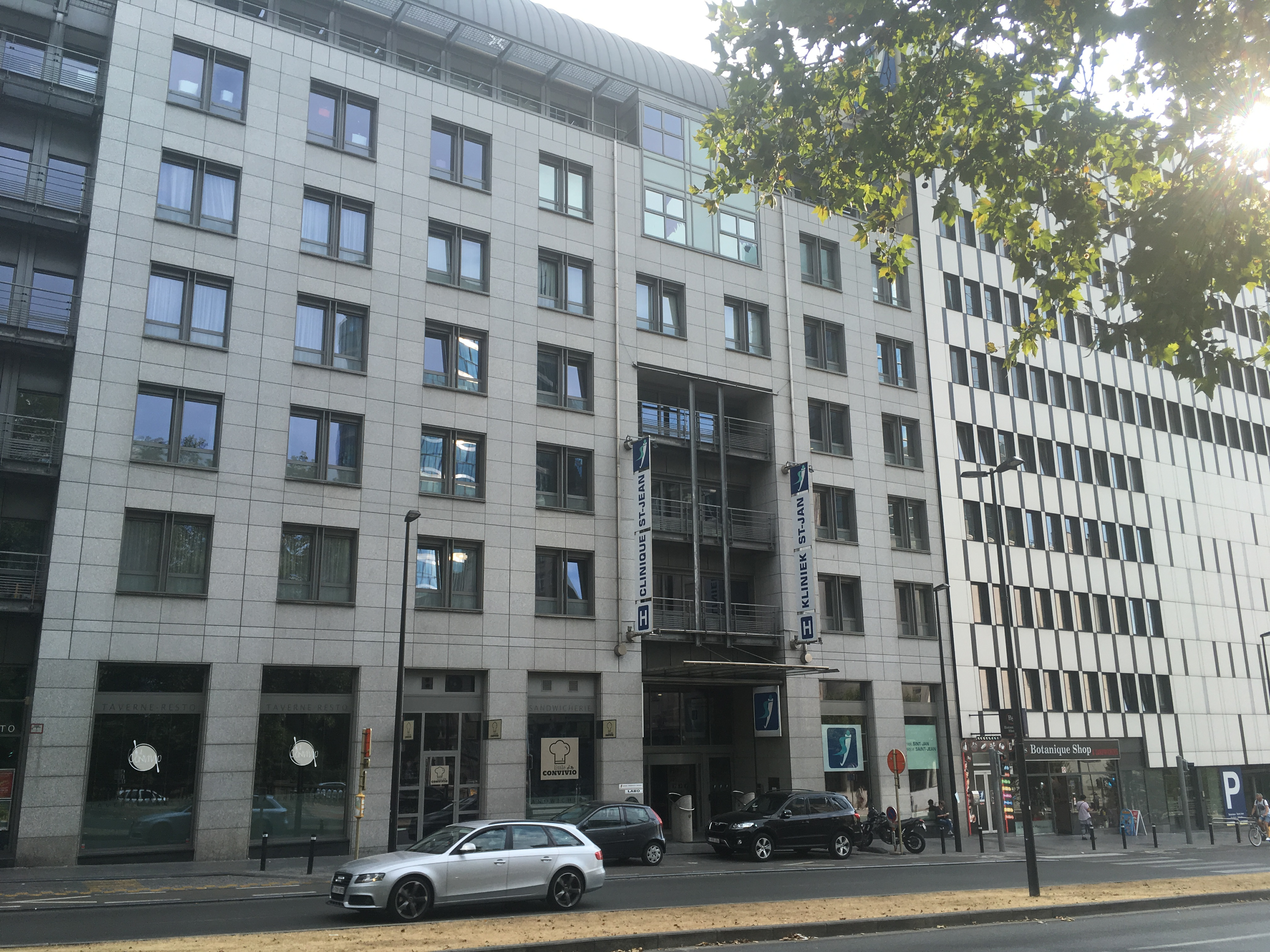 Headquarters of the Saint John's Clinic on the Botanical Garden Boulevard in Brussels